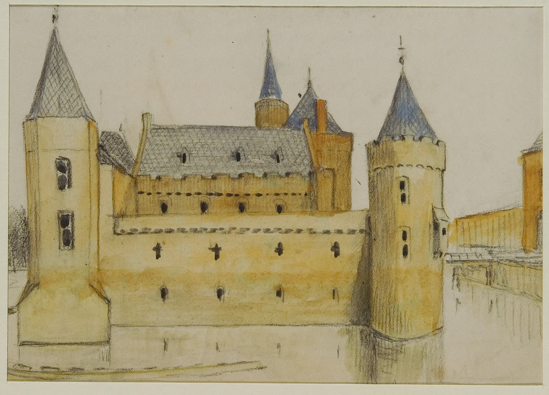 The Castel vieuwed at the leftside, surrounded by canals